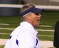 University of Toledo head football coach Tim Beckman before a game in 2009.